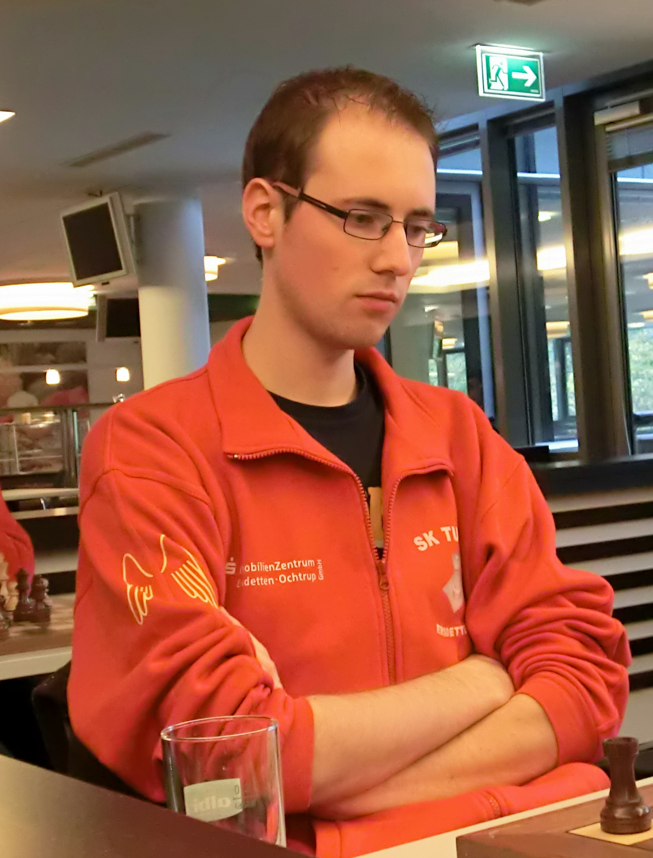 Stefan Kuipers, chess player from the Netherlands